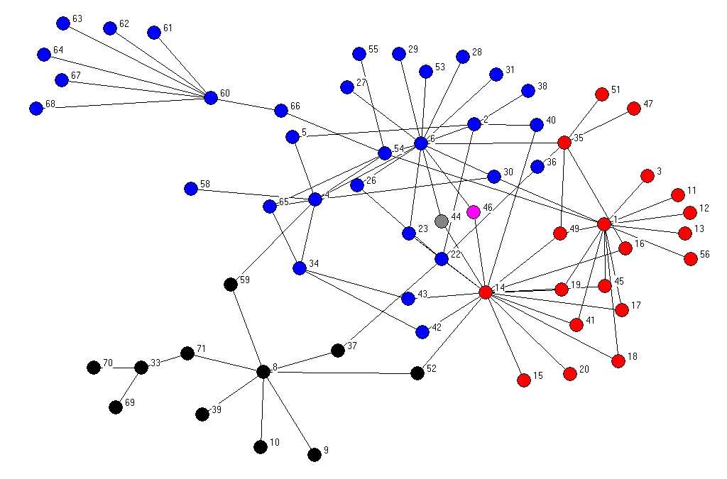 Network diagram, example with ideas as nodes and links as edges